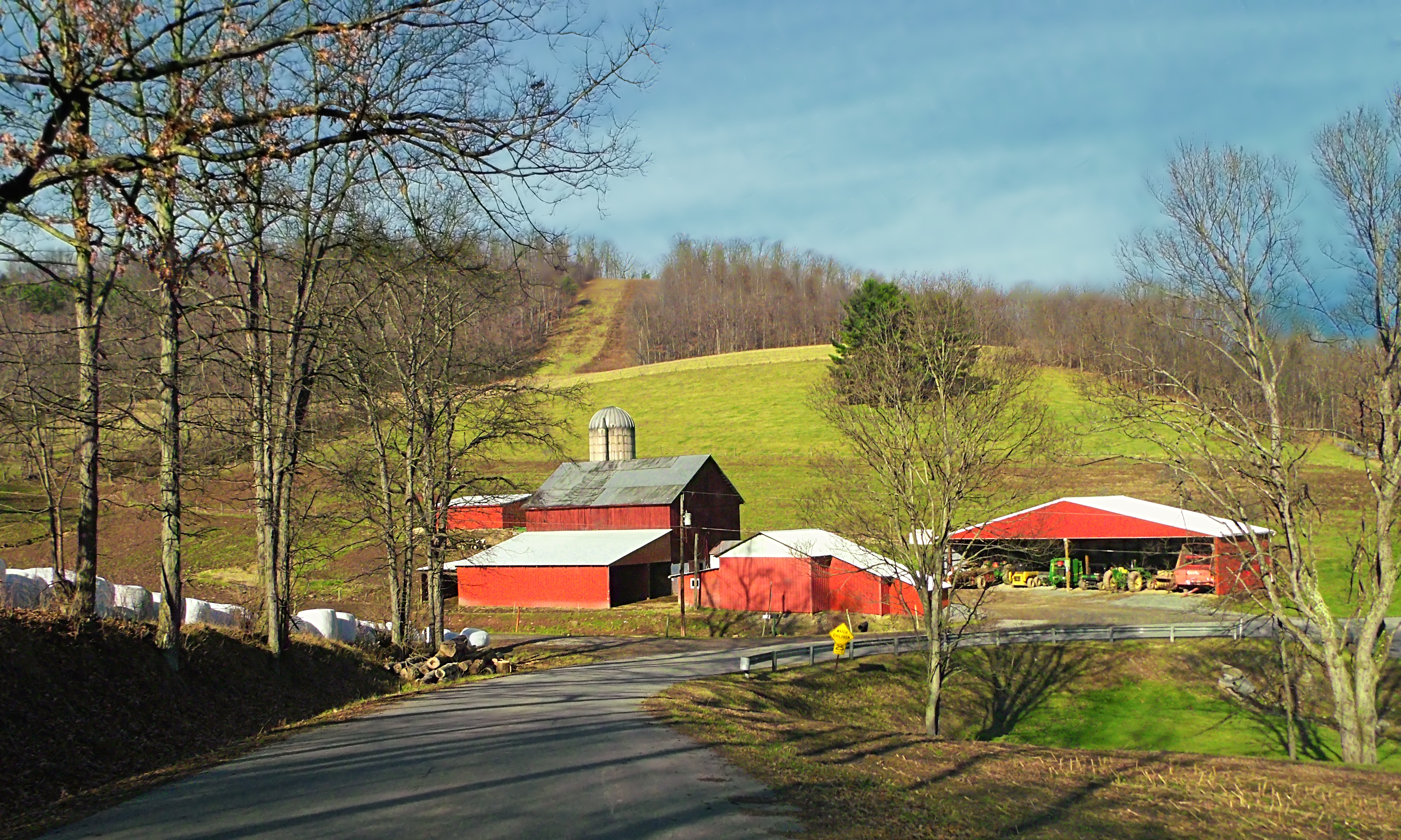 Farmstead, Boggs Township, Centre County.